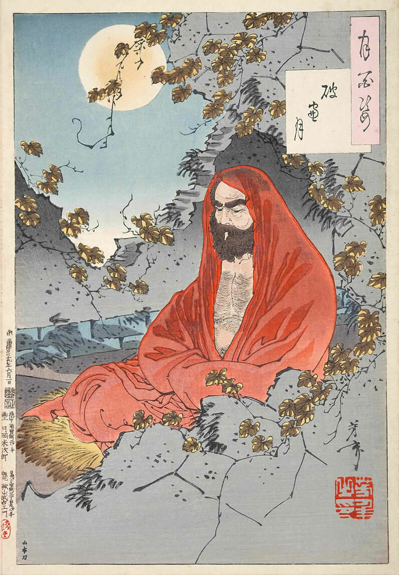 "The moon through a crumbling window" in the "A Hundred Aspects of the Moon" series. Bodhidharma, by Yoshitoshi, 1887.